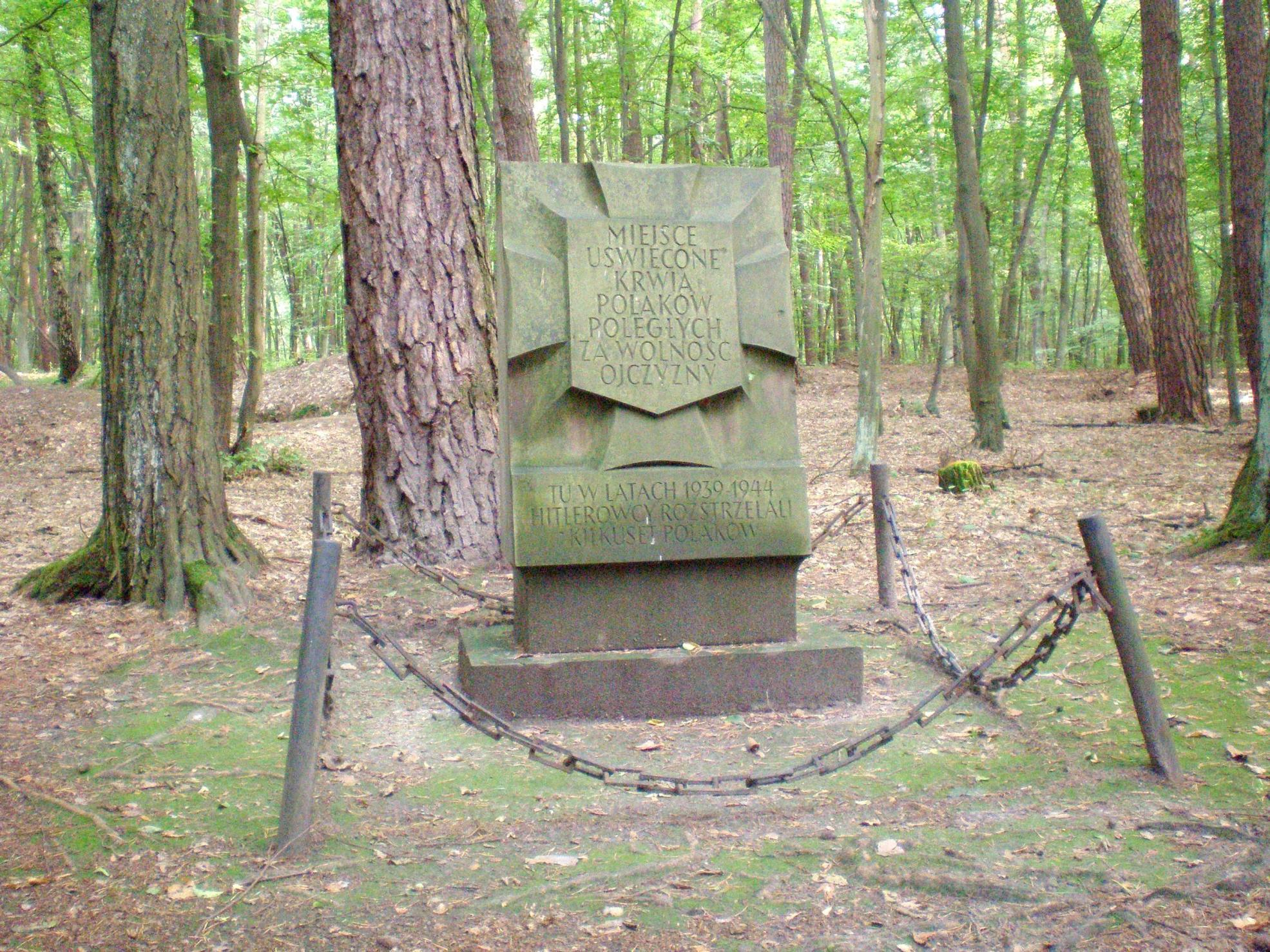 Plaque in Las Kabacki (Warsaw) commemorating a few hundred Poles which were executed here by Nazi Germans in 1939-1944.